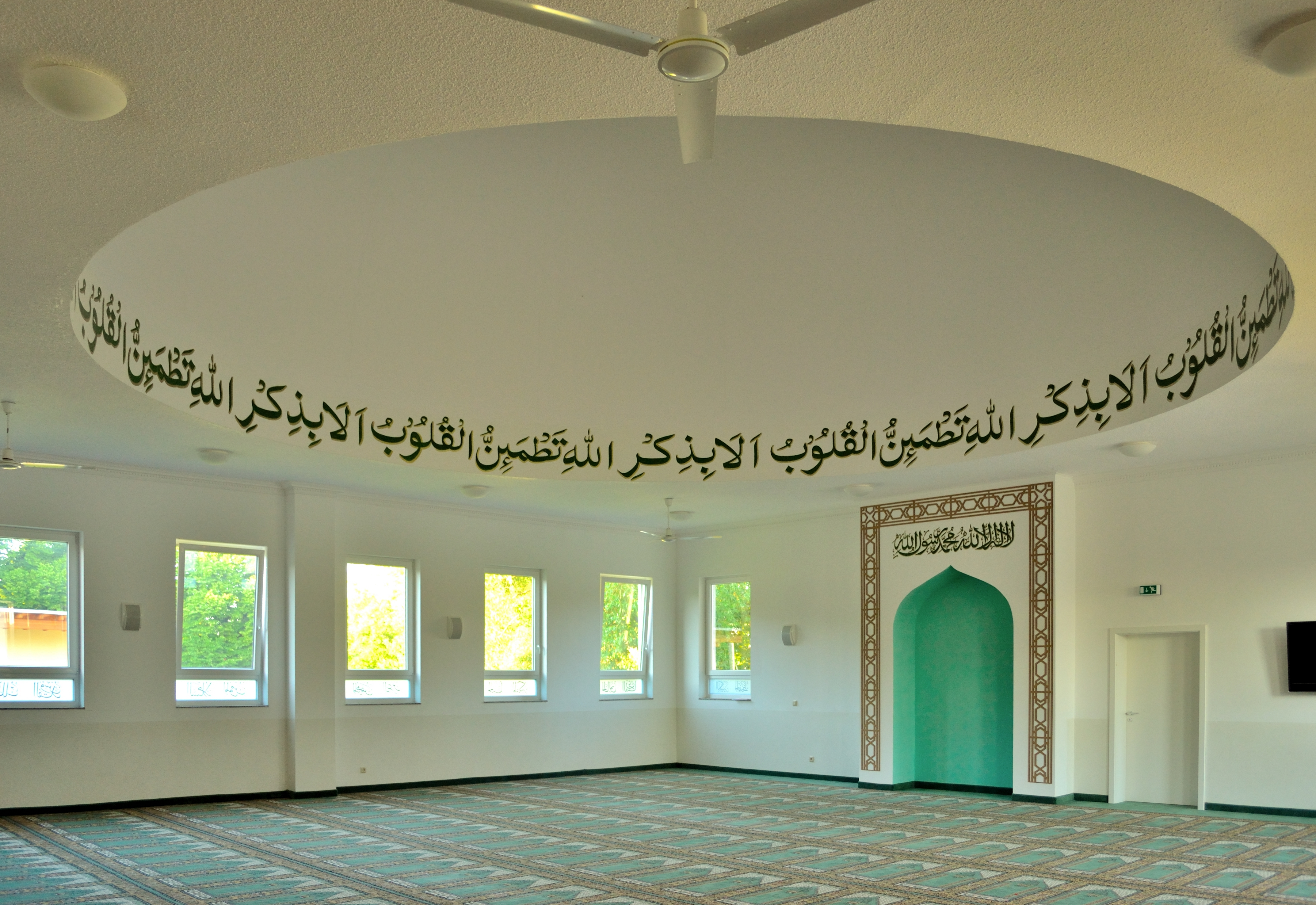 Ladies prayerhall of the Khadija Mosque (upper floor). Quranic writings on the roof: اَلَا بِذِكْرِ اللهِ تَطْمَئِنُ الْقُلُوبُ